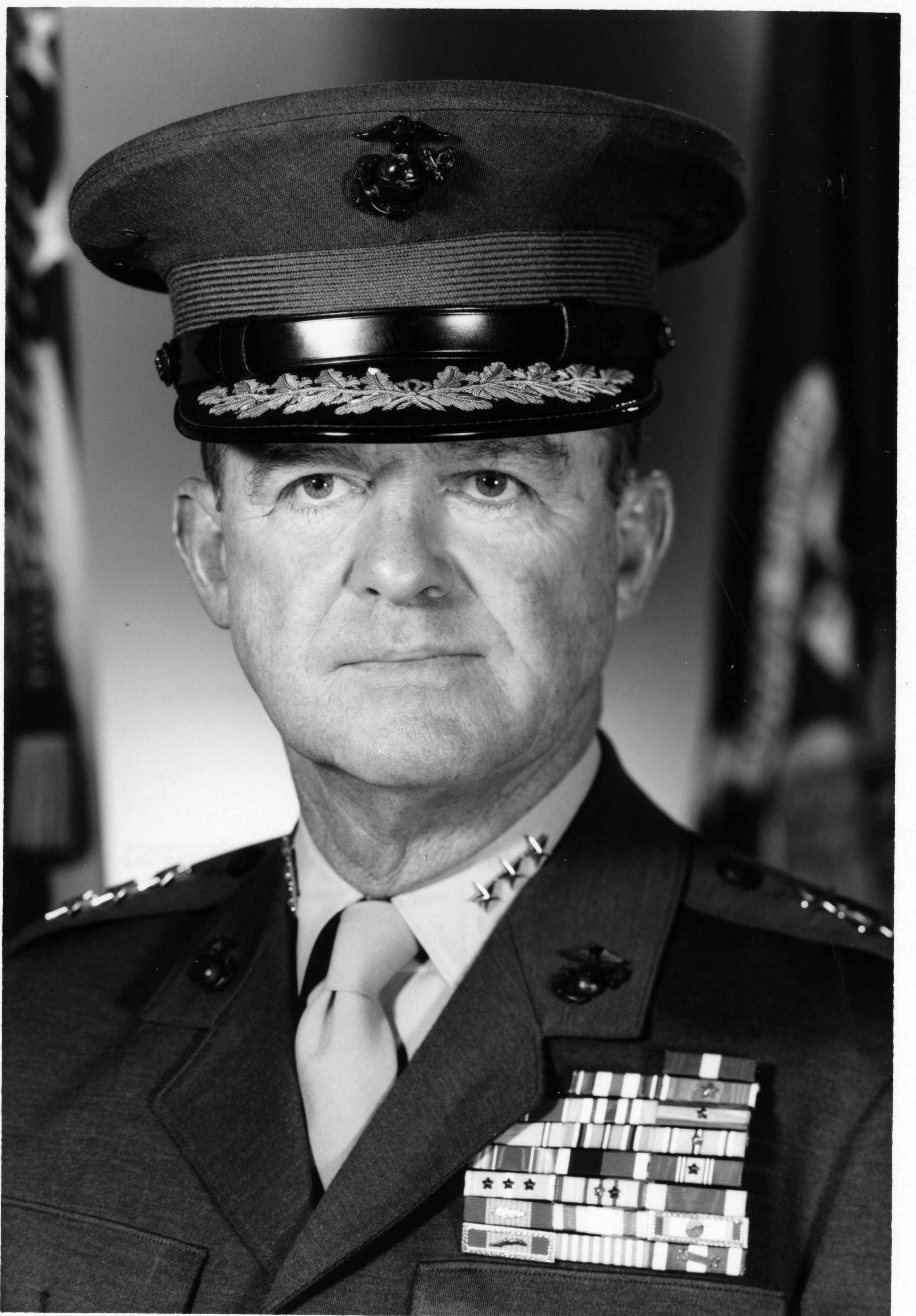 John Nicholas McLaughlin (September 21, 1918 - August 8, 2002) was an highly decorated officer of the United States Marine Corps with the rank of Lieutenant General. During his 33 years of active service, McLaughlin was the participant of wars in Pacific, Korea and Vietnam. He was taken prisoner during Korean War and spent almost three years in Chinese captivity. McLaughlin finished his career as Commanding General of Fleet Marine Force, Pacific.